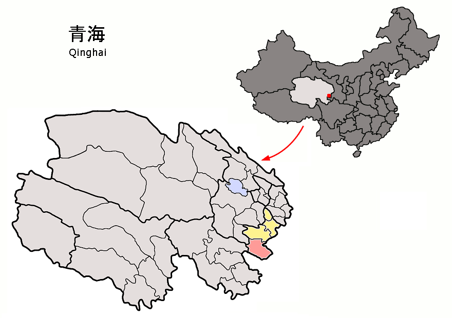 Location of Henan County (pink) and Huangnan Prefecture (yellow) within Qinghai province of China Map drawn in september 2007 using various sources, mainly : Qinghai province administrative regions GIS data: 1:1M, County level, 1990 Qinghai Counties map from "Plateau Perspectives" (the limits of some county-level subdivisions may not be accurate)